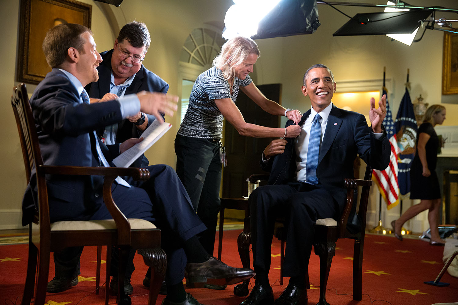 President Barack Obama participates in an interview with Chuck Todd, new host of NBC's "Meet The Press" in the Cabinet Room of the White House, Saturday, Sept. 6, 2014.